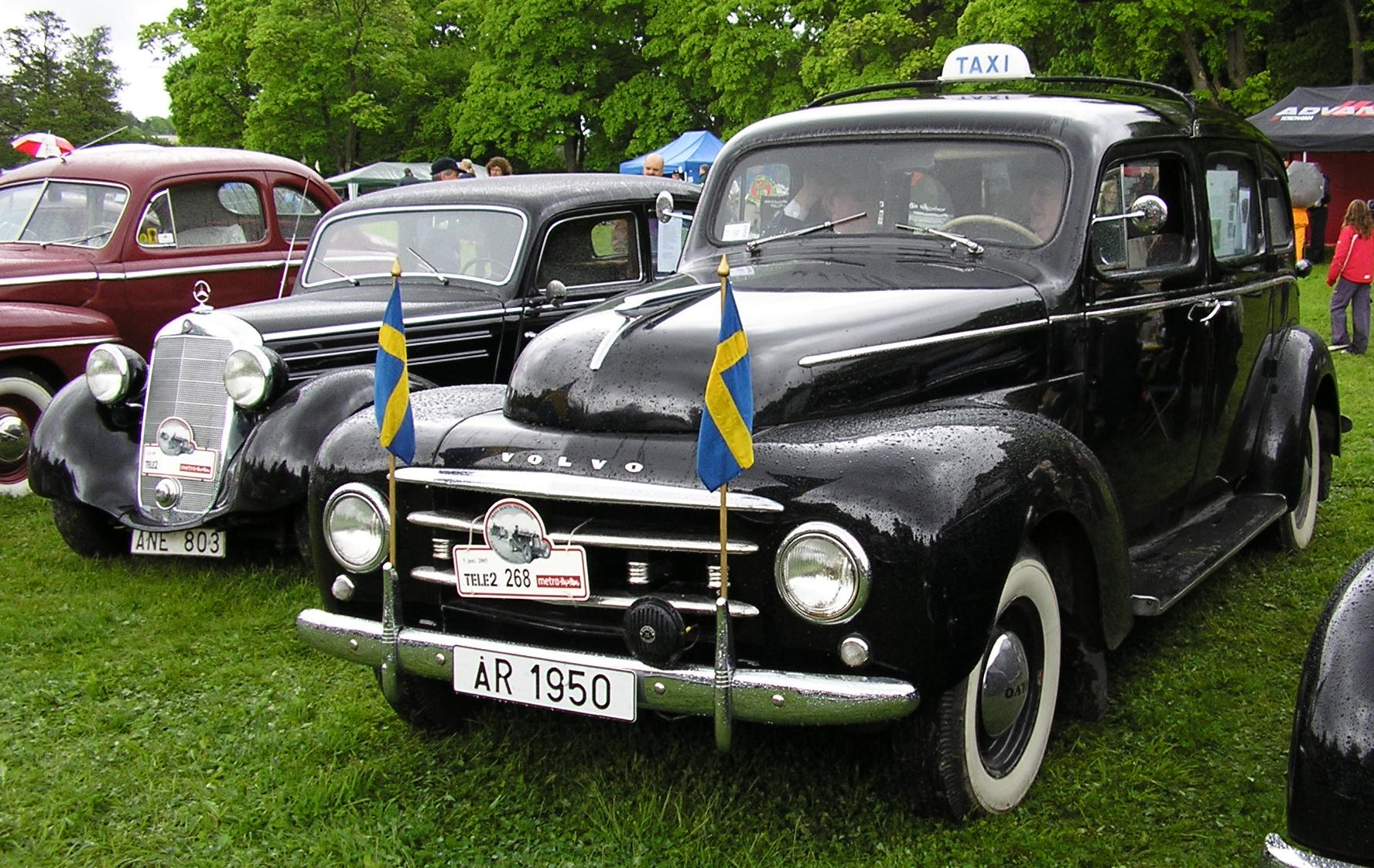 Volvo PV 832, aka "Sugga" (Sow). Photographed by myself at Prins Bertil Memorial in Stockholm, Sweden 2005. A 1950 Mercedes-Benz 170S sedan can also be seen to the left.